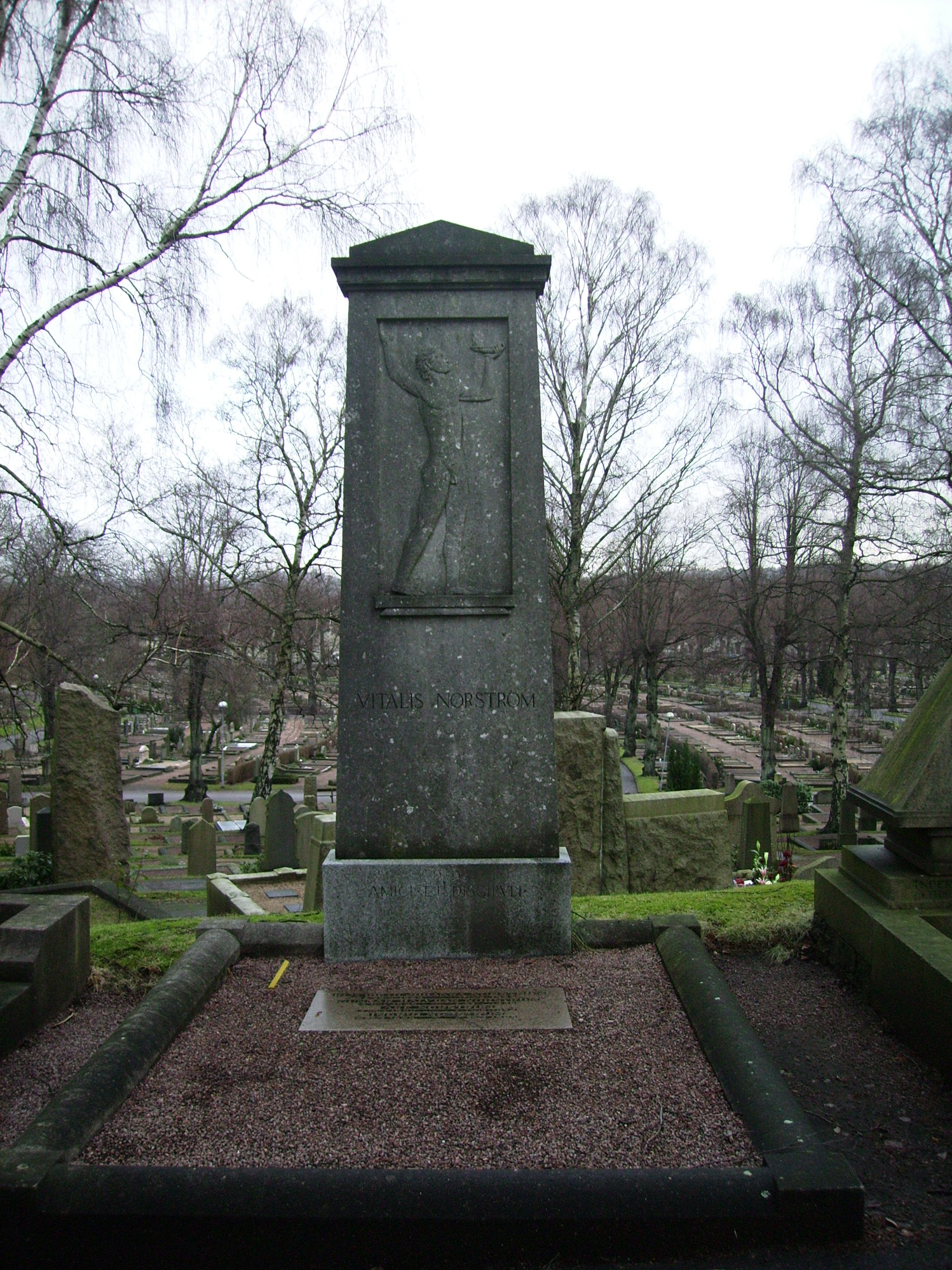 Picture of Vitalis Norström's grave in Gothenburg.